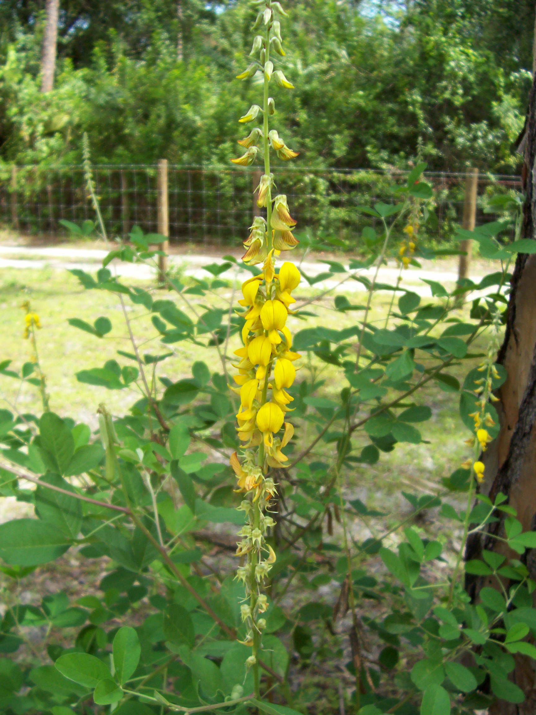 Photo of a showy crotalaria (Crotalaria spectabilis).